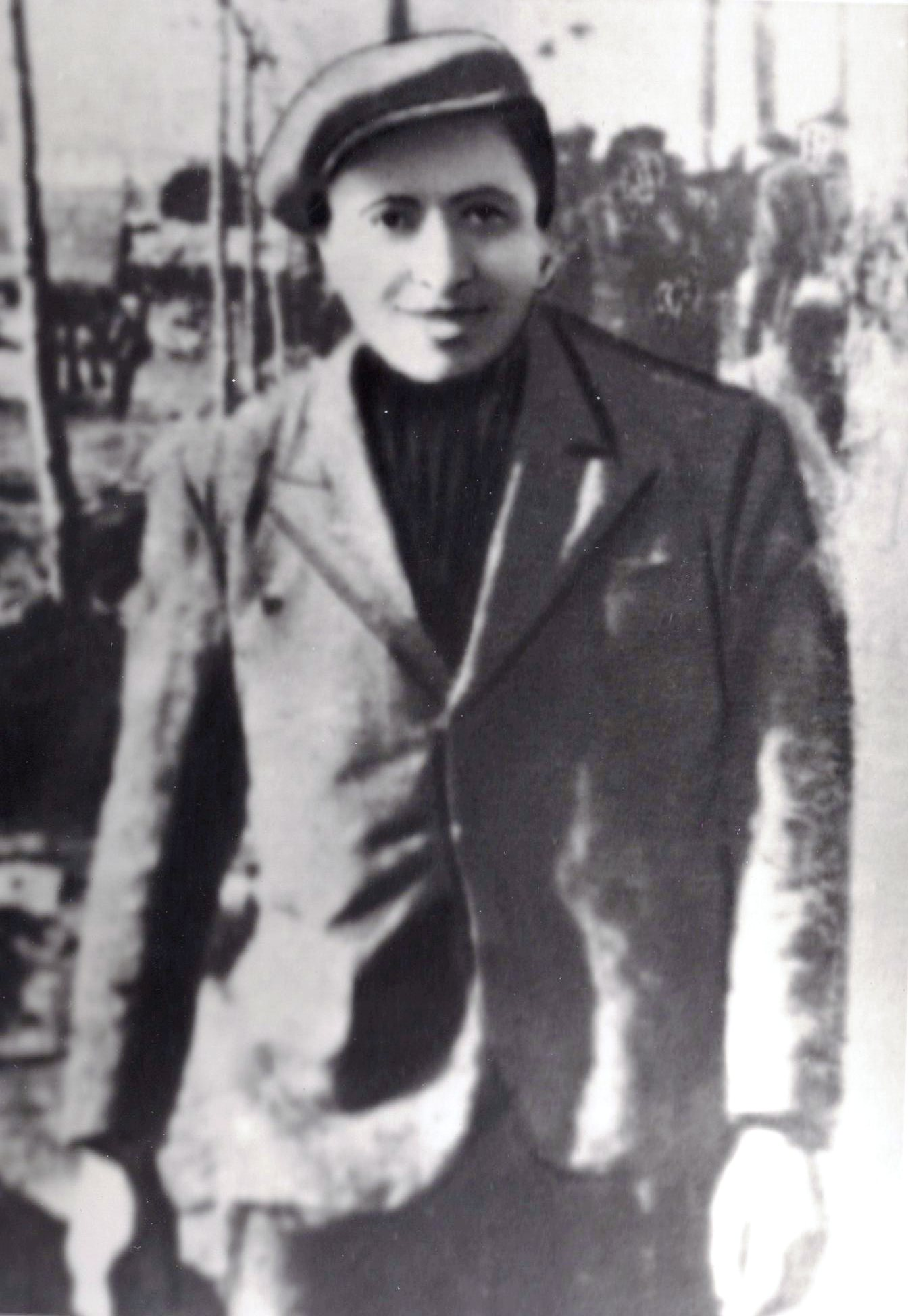 Zlate Mihajlovski (1926-1944) People's Hero of Yugoslavia from the Republic of Macedonia This media file is produced by Wikipedian in Residence in Category:Wikipedian in Residence at DARM in 2016.